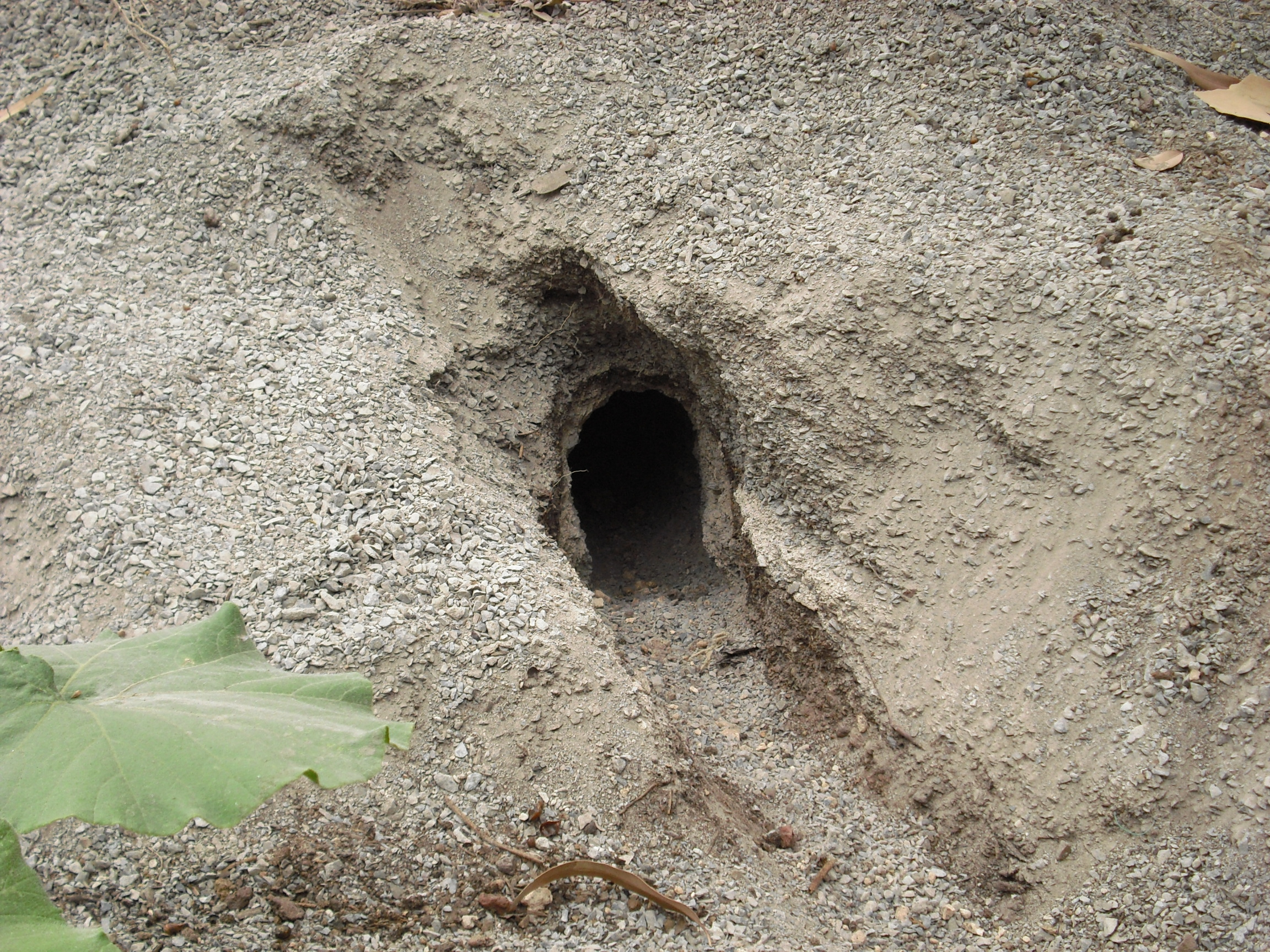 Entrance to a long, long tunnel dug by a pet rabbit named Ricky in his spare time in a South Australian backyard